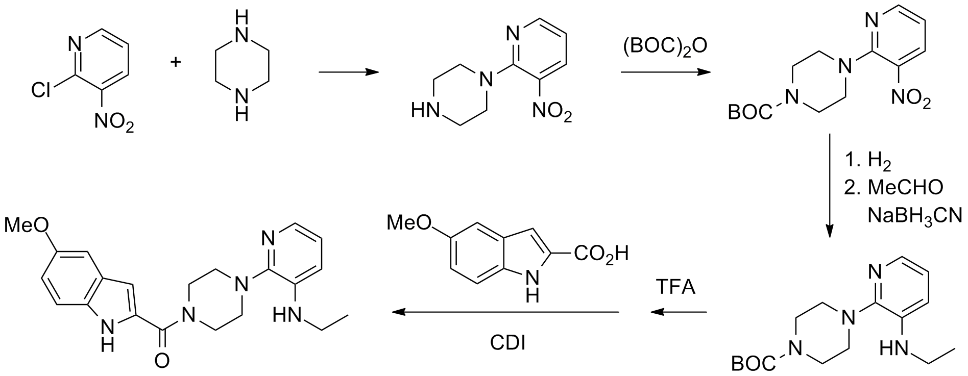 D. L. Romero, Drugs Future 19, 9 (1995).